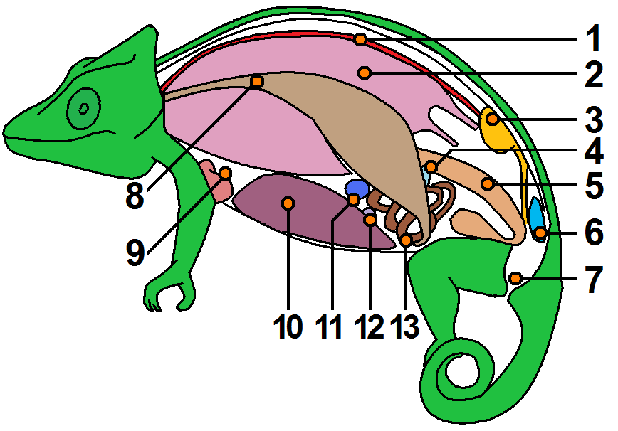 Amatomy of a cameleon